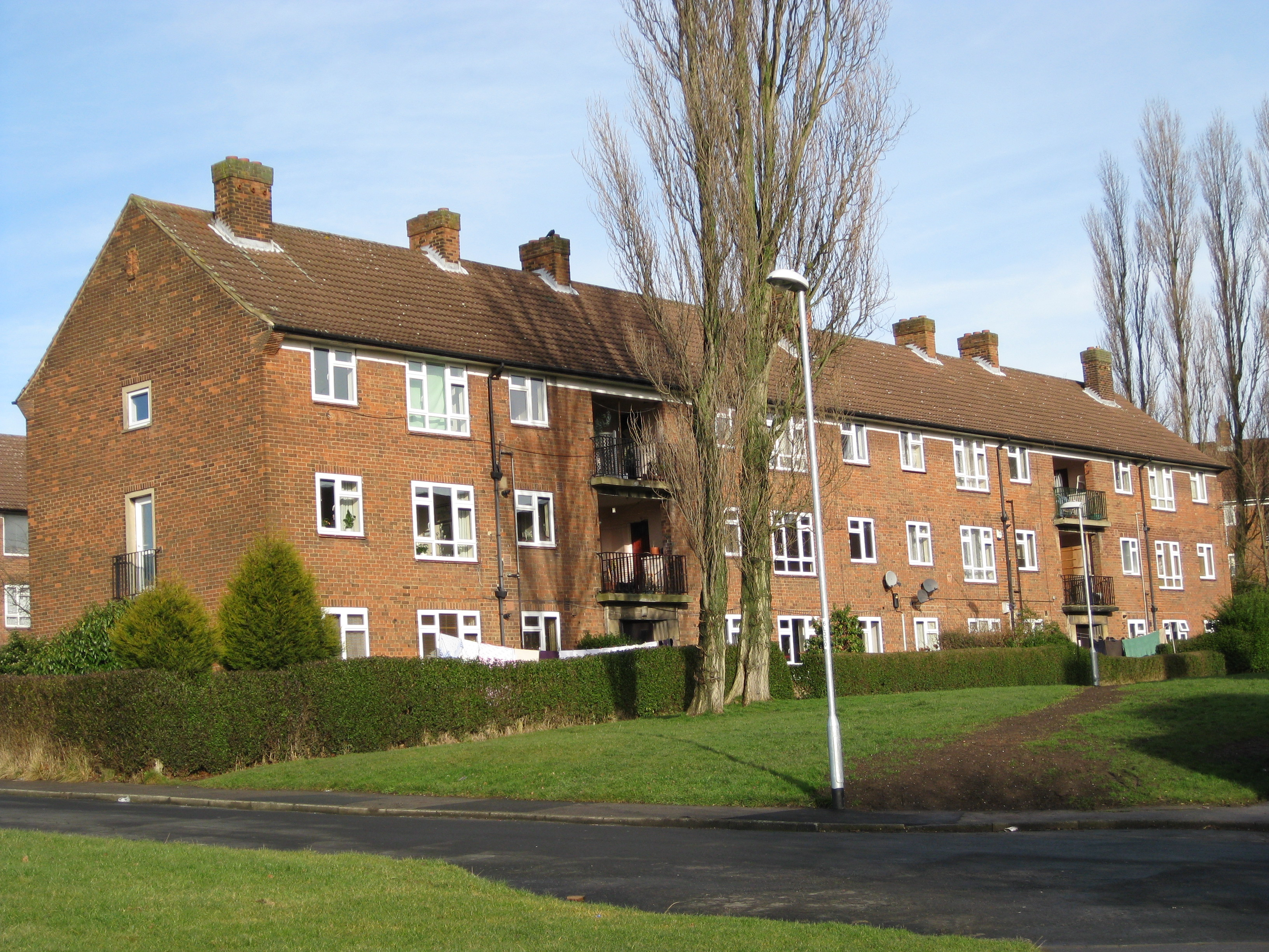 Council-built flats on the Lingfield estate, Moortown, Leeds LS17